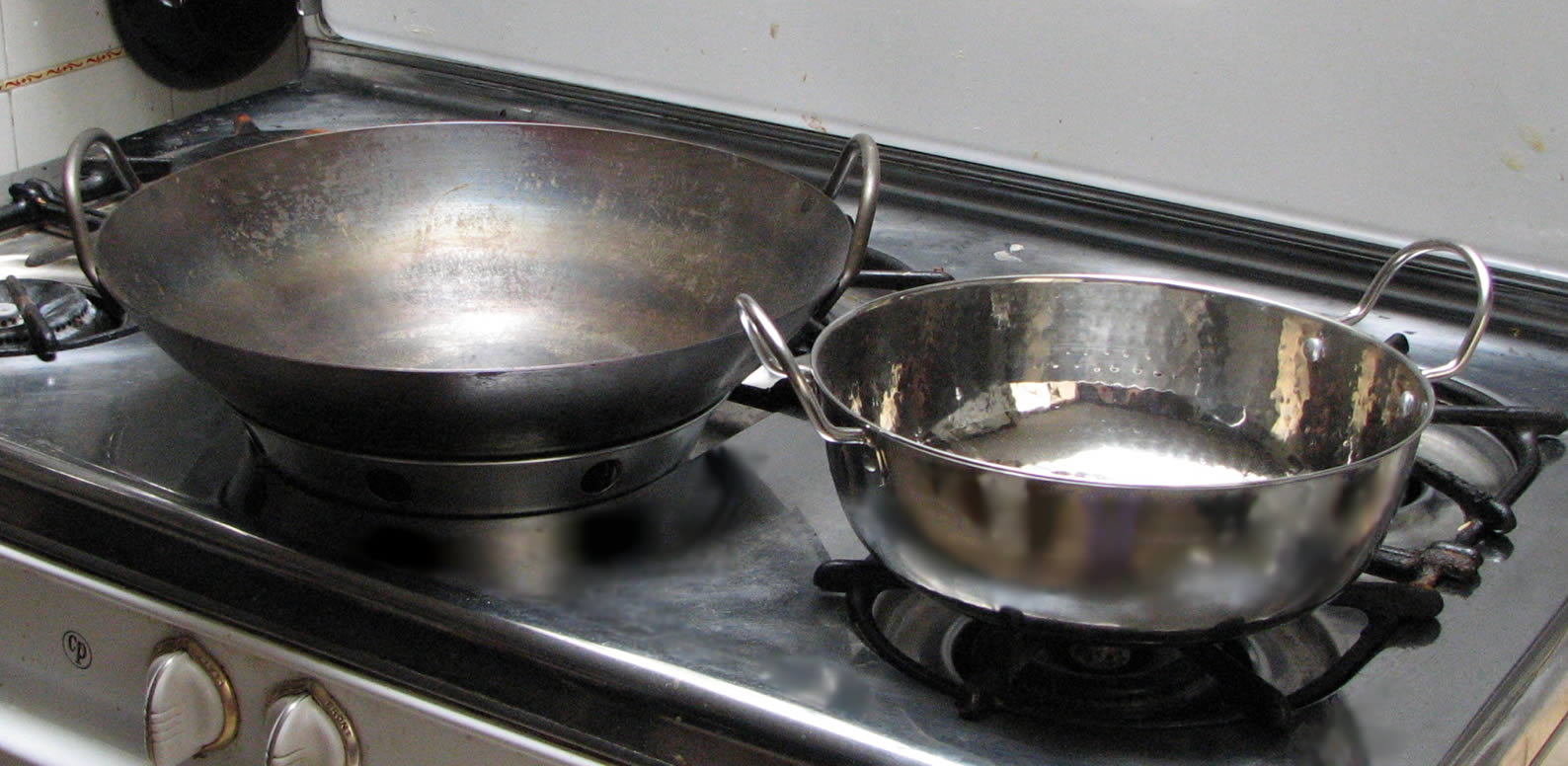 A carbon steel 14-inch chinese (actually american-made) wok and a hammered stainless steel 9.5-inch indian karahi.